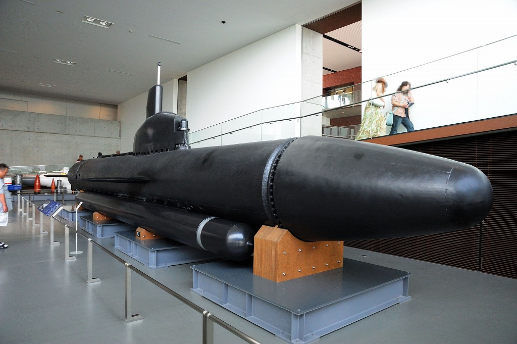 Kairyu class submarine in the Yamato Museum at kure hiroshima japan